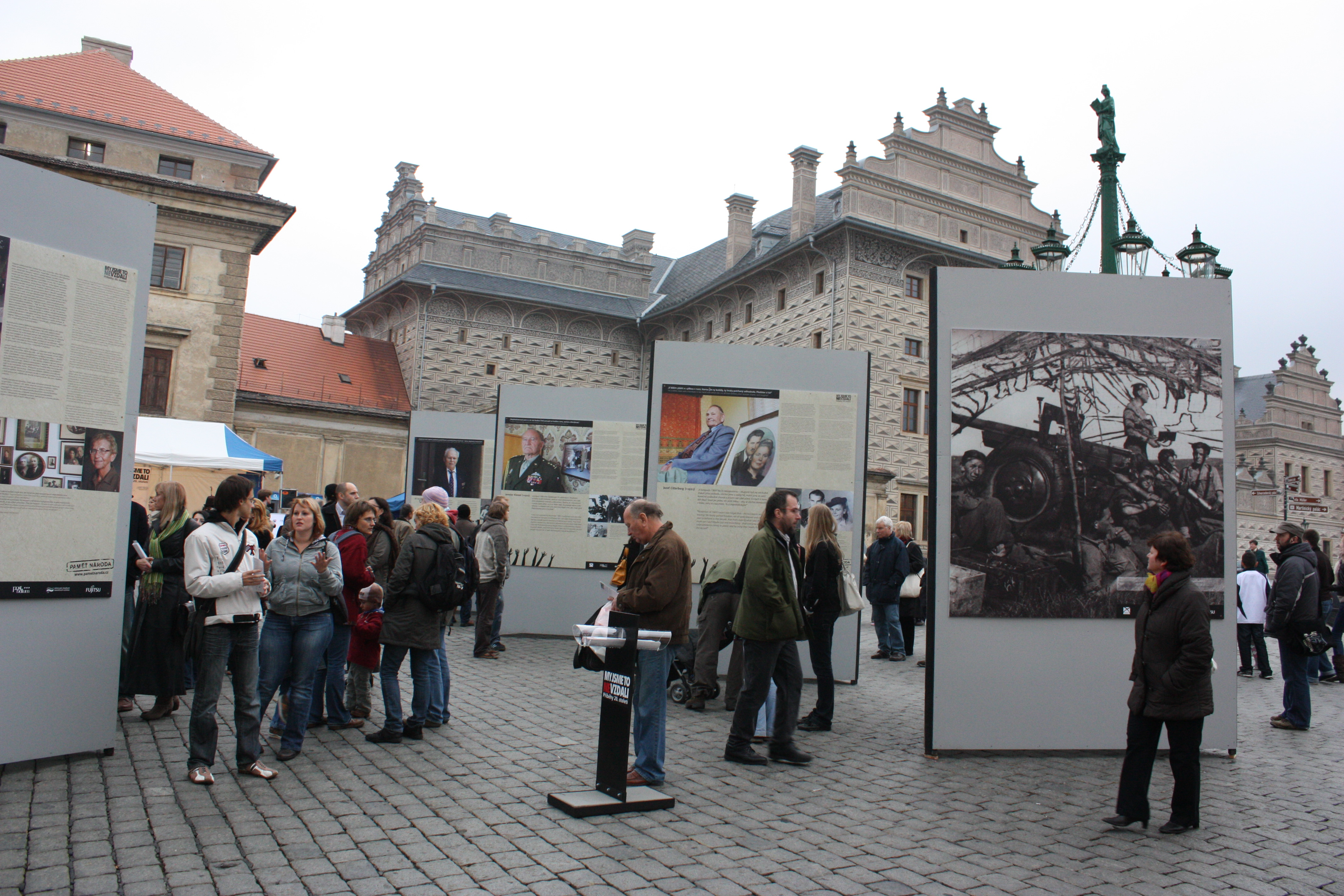 Hradčany Square at Hradčany, Prague. Open Air Exposition opening organised by Post Bellum Association.